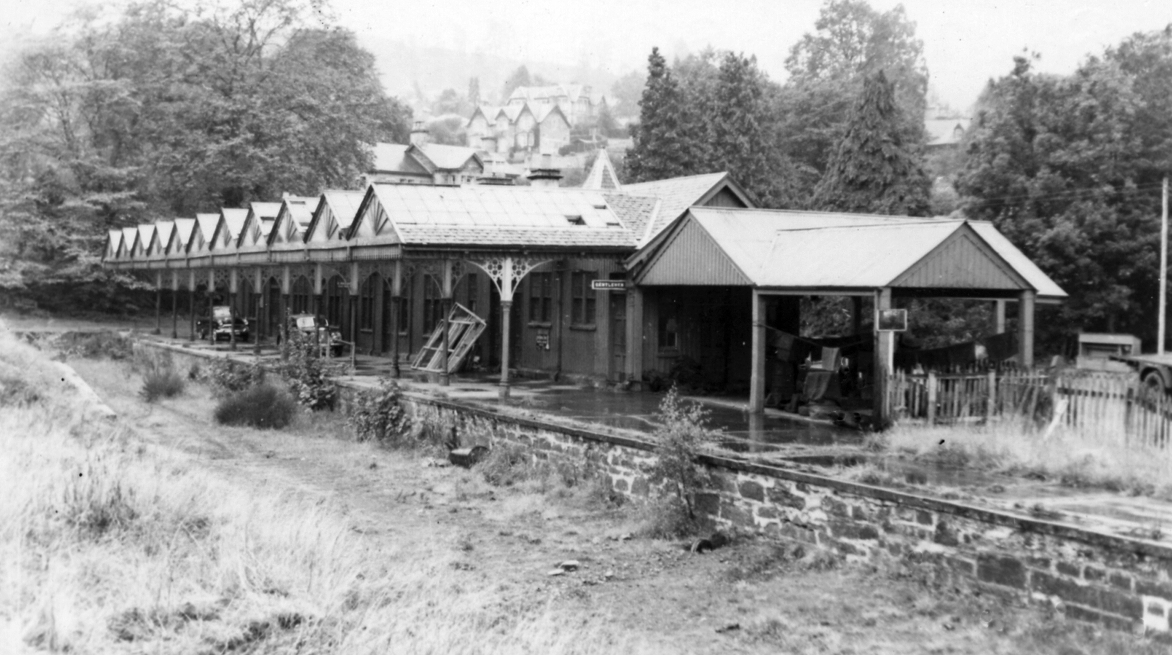 Strathpeffer, remains of station 1956View towards buffer-stops. Formerly the terminus of an ex-Highland branch from Dingwall: closed 23/2/46 (goods 26/3/51).